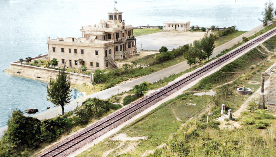 Photo of Ho Tung Lau, a demolished villa in Hong Kong